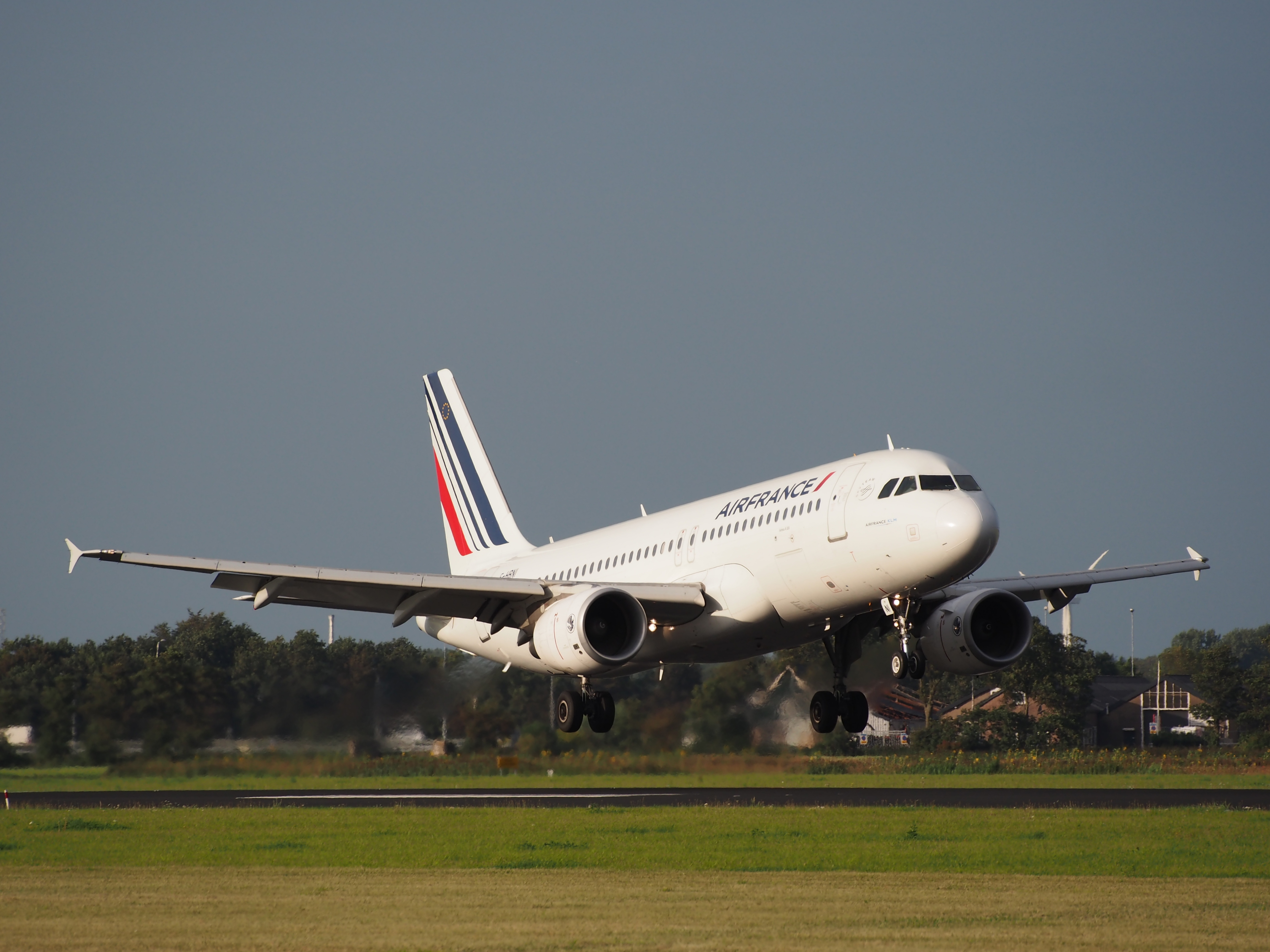 Photographed at Schiphol (EHAM-AMS) runway 18R, The Netherlands.